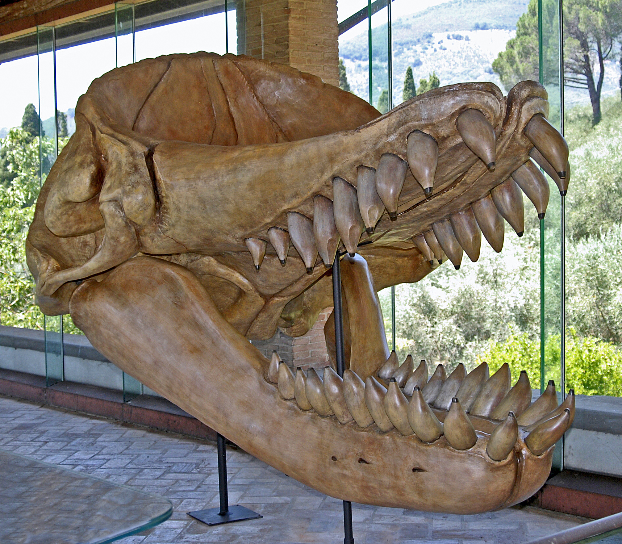 Livyatan melvillei. Cast of skull with teeth and mandible, on display at the Museo di Storia Naturale e del Territorio, Calci (Province Pisa), Italy